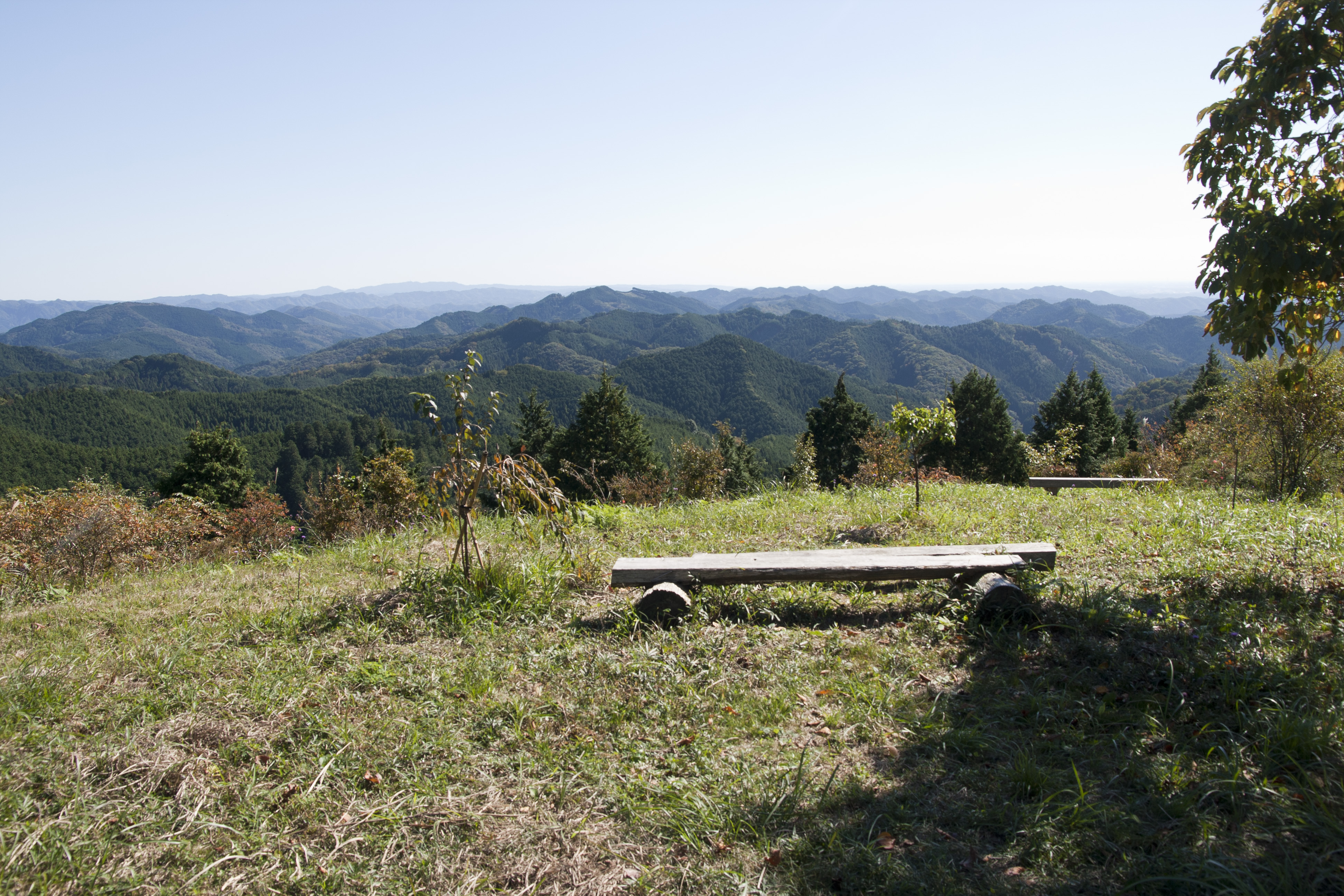 Mount Shakujo, Yamizo Mountains, Ibaraki and Tochigi Prefectures, Japan.